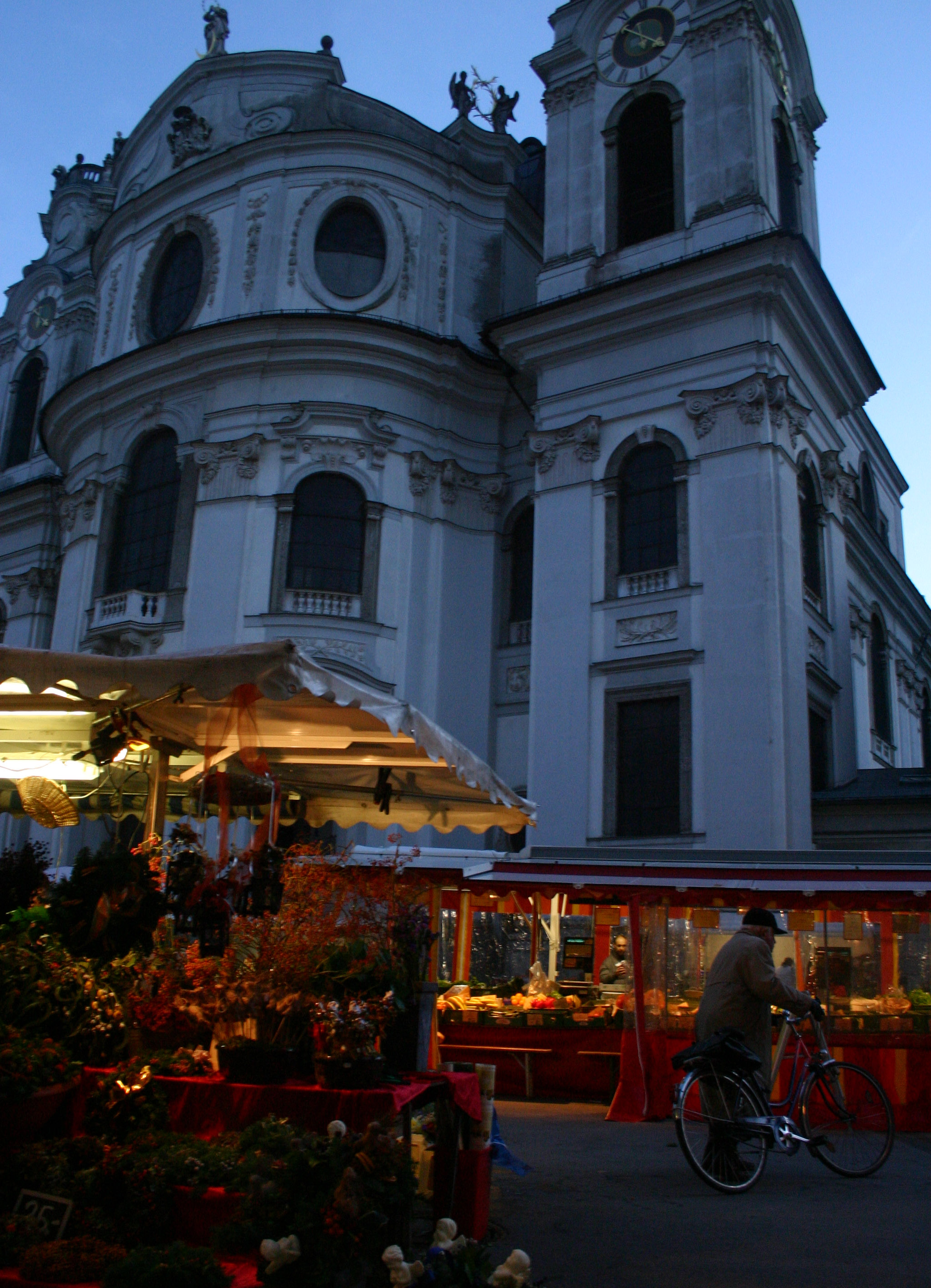 Austria, Salzburg, Kollegienkirche